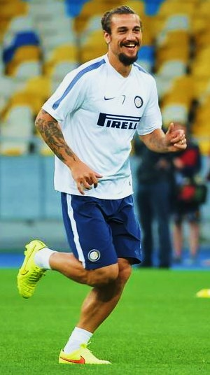 Pablo Daniel Osvaldo